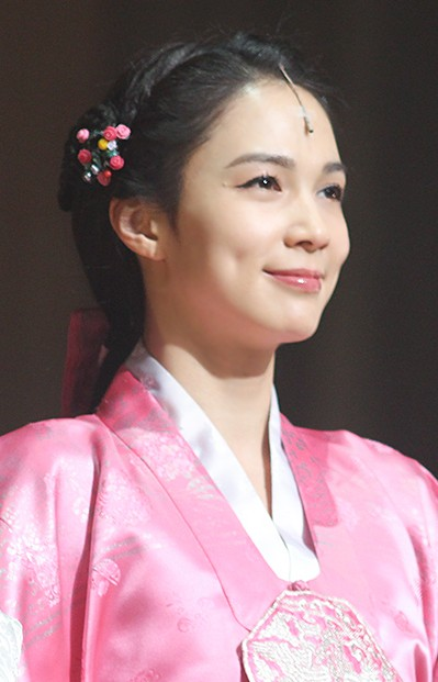 Cast of "Moon Embracing the Sun - The musical", 14 February 2014